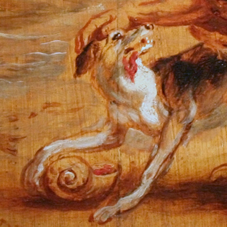 Detail from Hercules and the Discovery of the Secret of Purple (Rubens)